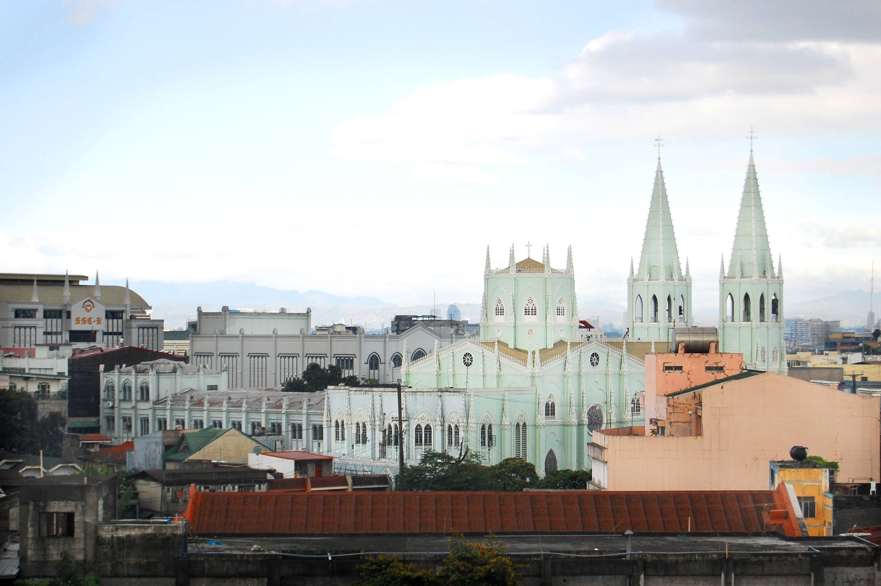 Basilica of San Sebastian. This is beside the gray San Sebastian College - Recoletos. This photograph had been taken from the nearby Manuel L. Quezon University in Quiapo, Manila.